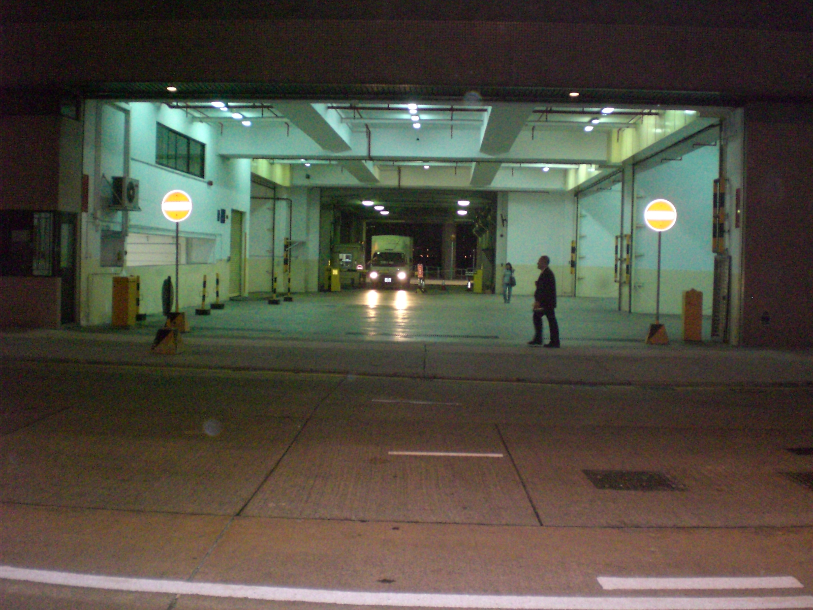 北角渣華道黃昏 zh-yue:柯達大廈